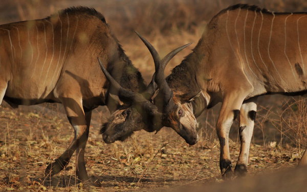 Two male Giant Elands fighting over dominance